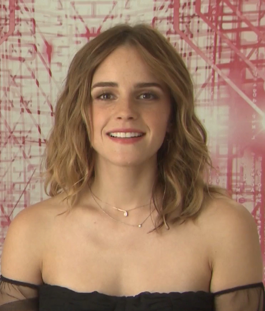 Emma Watson at a Press day in Paris for The Circle